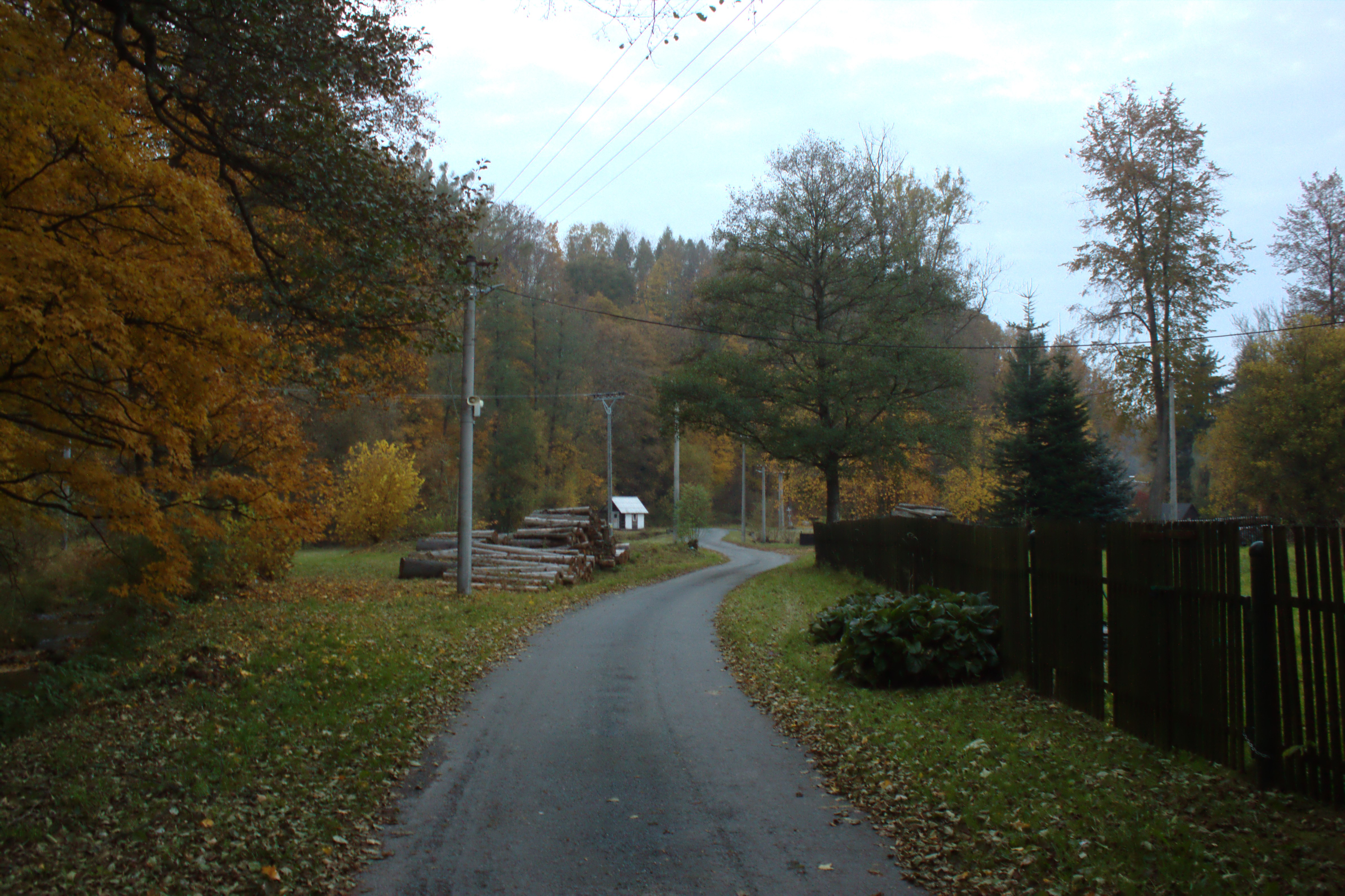 A turn from the main road to the village of Tylov, Moravian-Silesian Region, CZ